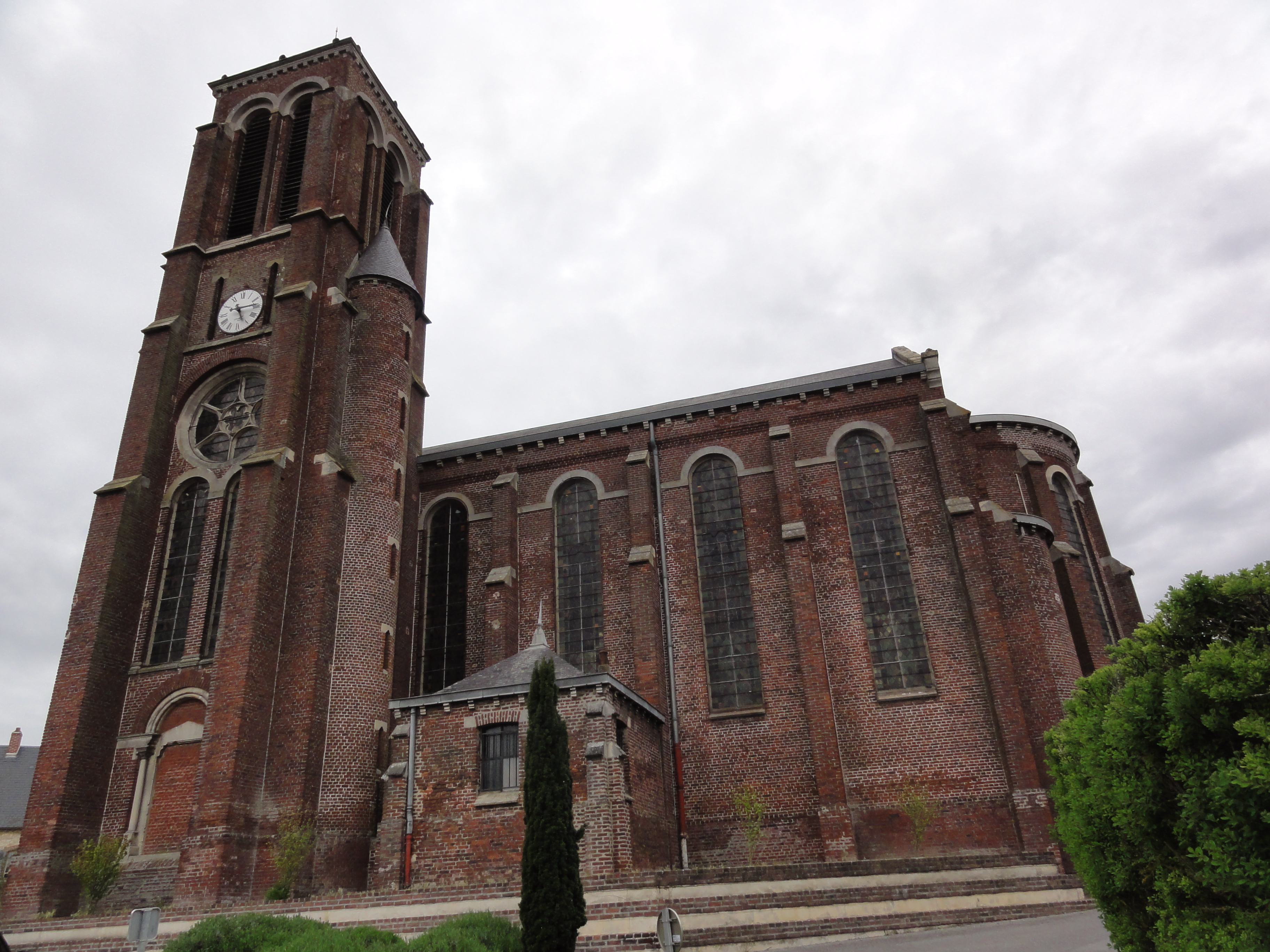 Couvron-et-Aumencourt (Aisne) église